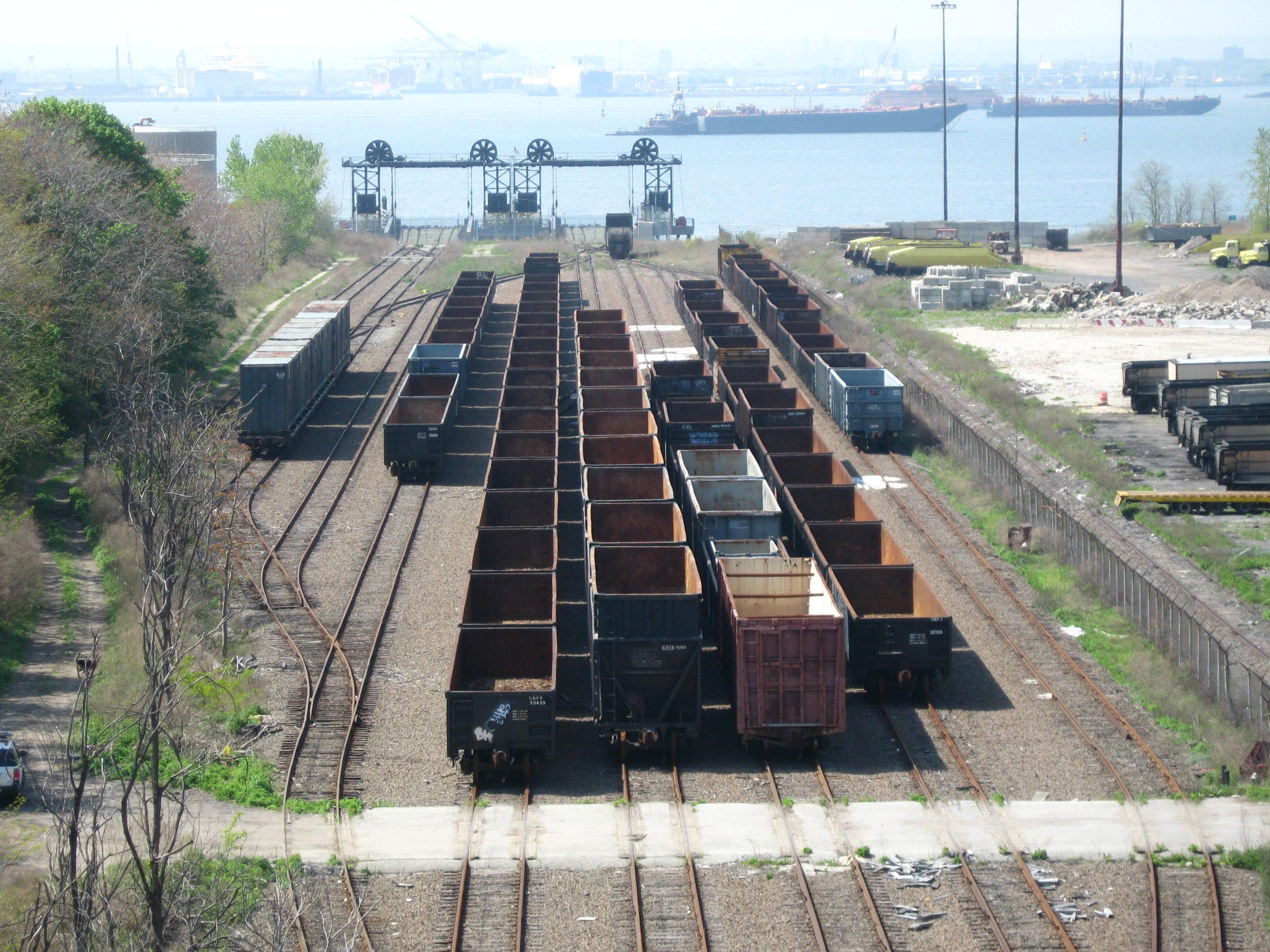 View of the 65th Street Yard, also called the Bay Ridge Rail Yard, in Brooklyn, New York. Looking northwest, full zoom, from downramp of Gowanus Expressway during the Five Boro Bike Tour on a sunny spring early afternoon. Picture is used in Brooklyn Daily Eagle article